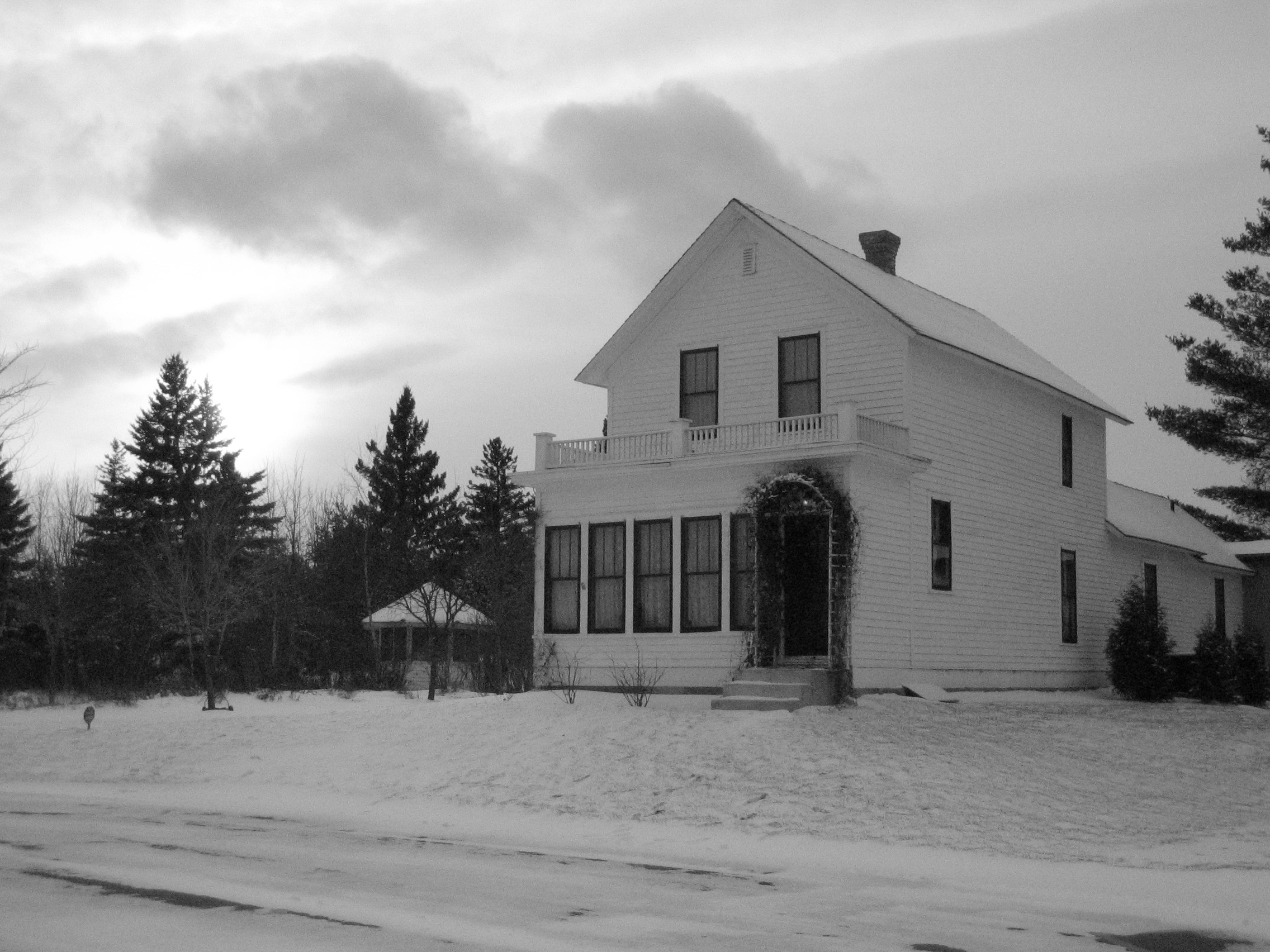 A photo of Judy Garland birth house with snow. In Grand Rapids, Minnesota.